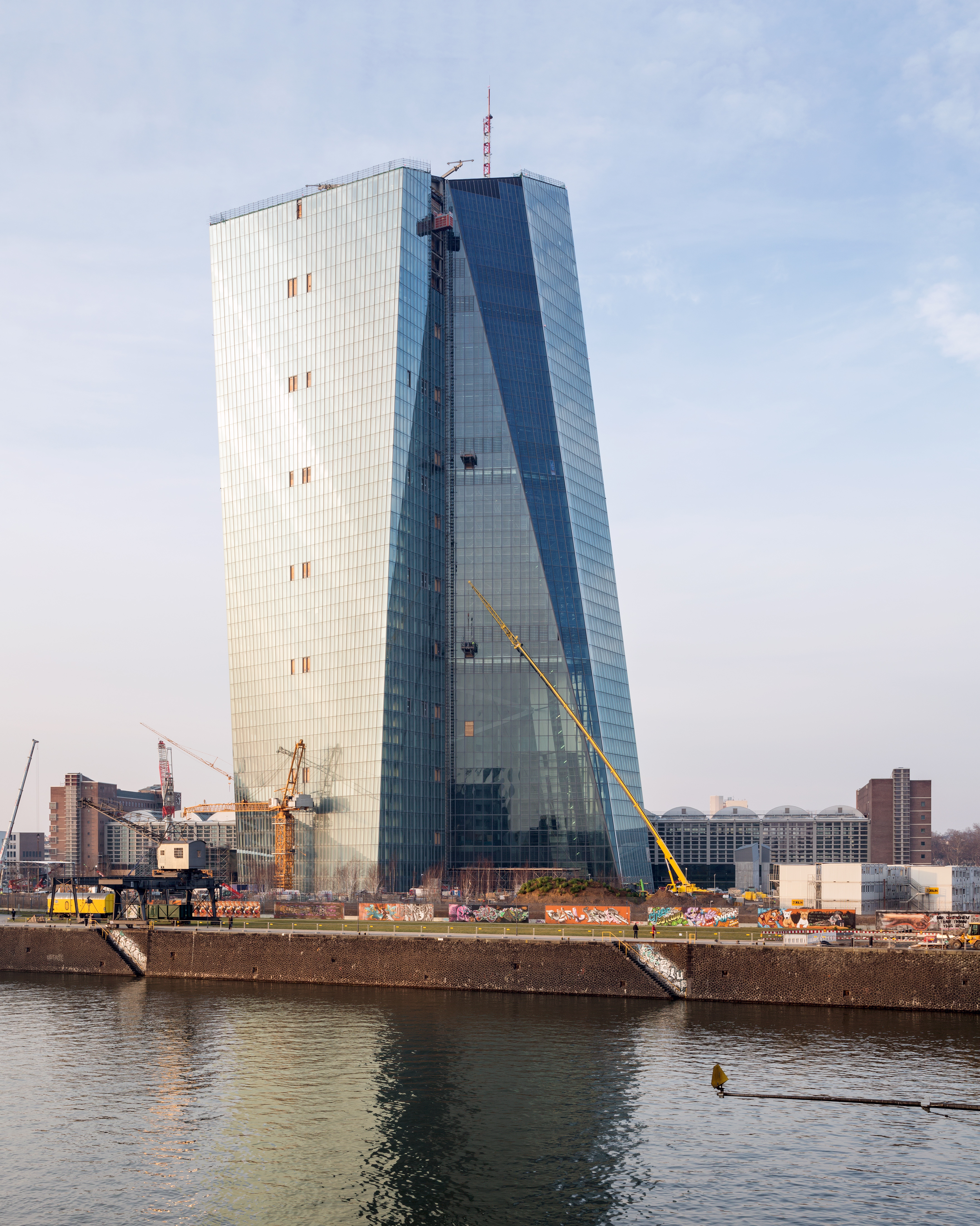 Frankfurt on the Main: European Central Bank Headquarters as seen from the southeast